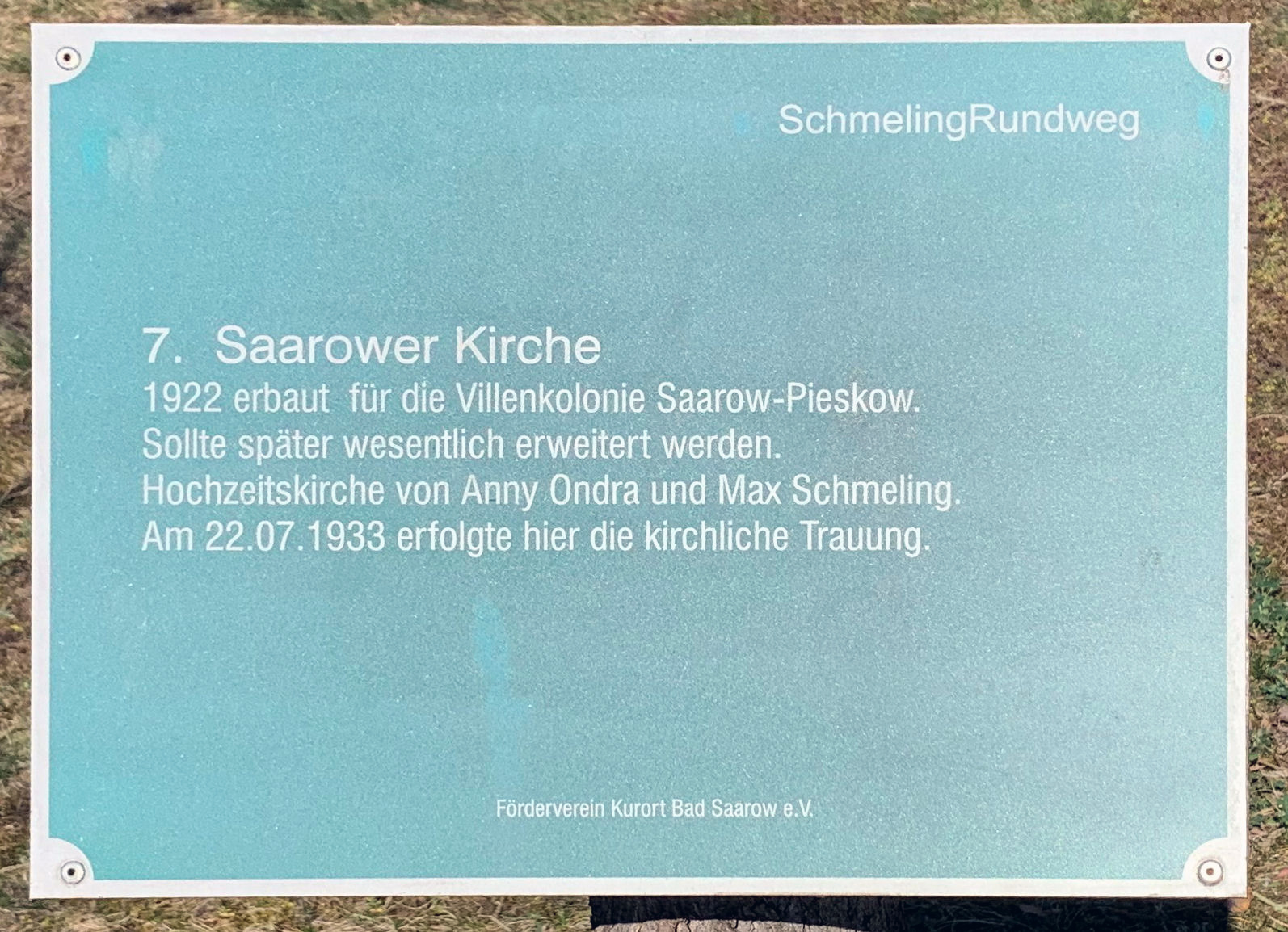 Memorial plaque, Saarower Kirche, Kirchstraße 9, Bad Saarow, Deutschland